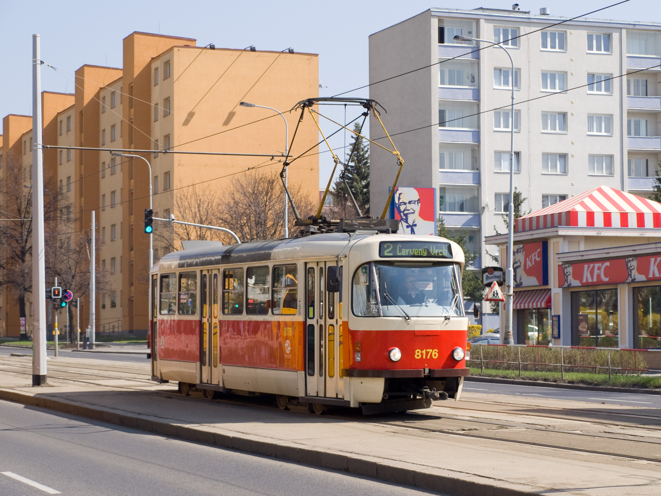 Tatra T3R.PV between Červený Vrch and Sídliště Červený Vrch tram stop, Vokovice, Prague 6